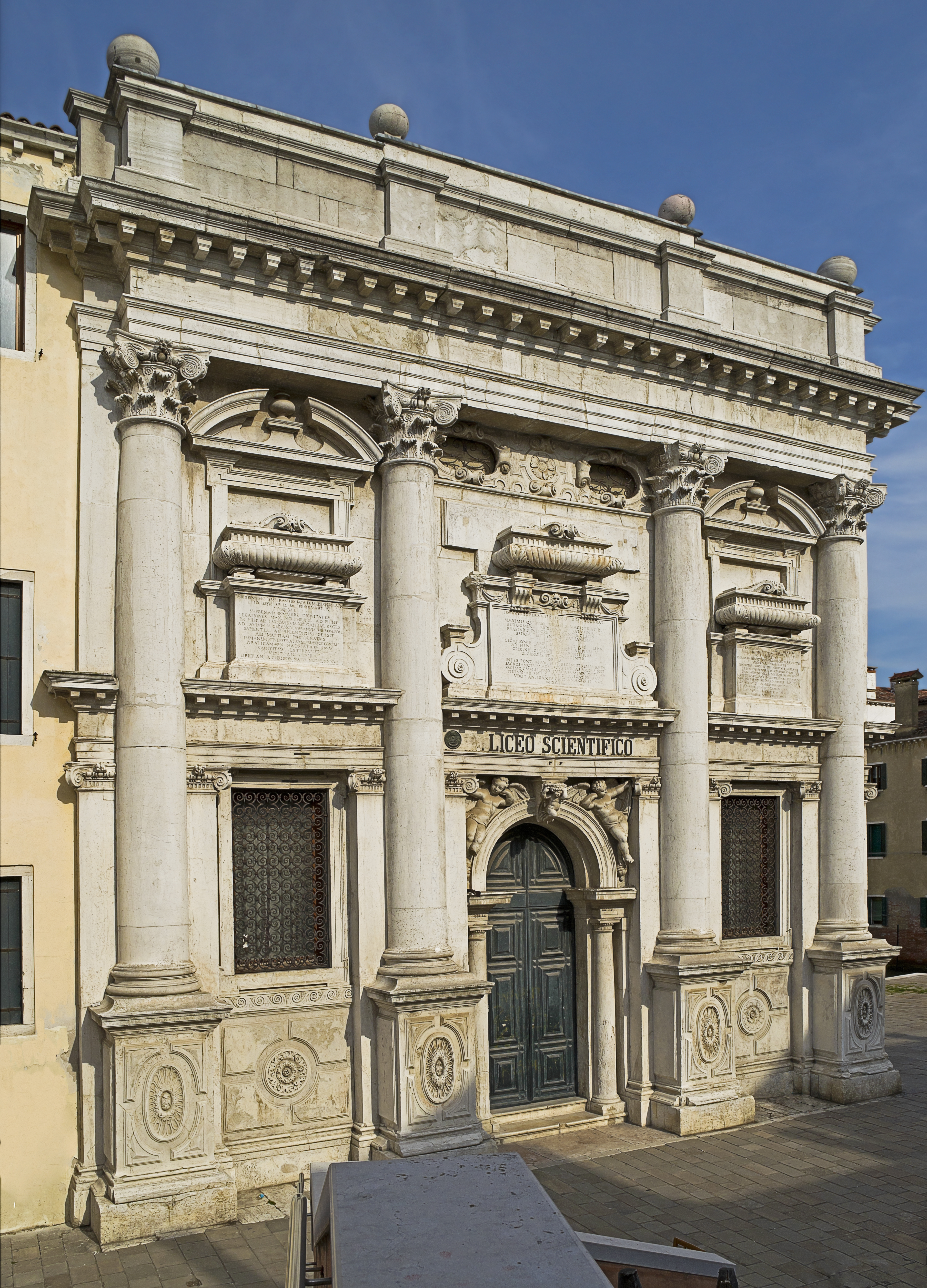 Church of Santa Giustina in Venice, facade, architect Baldassare Longhena